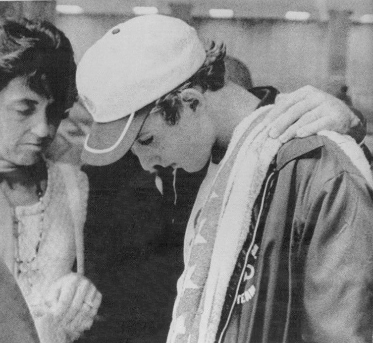 LG11 1972 Wire Photo RICK DE MONT Swimmer Munich Olympics Athlete Doping Scandal